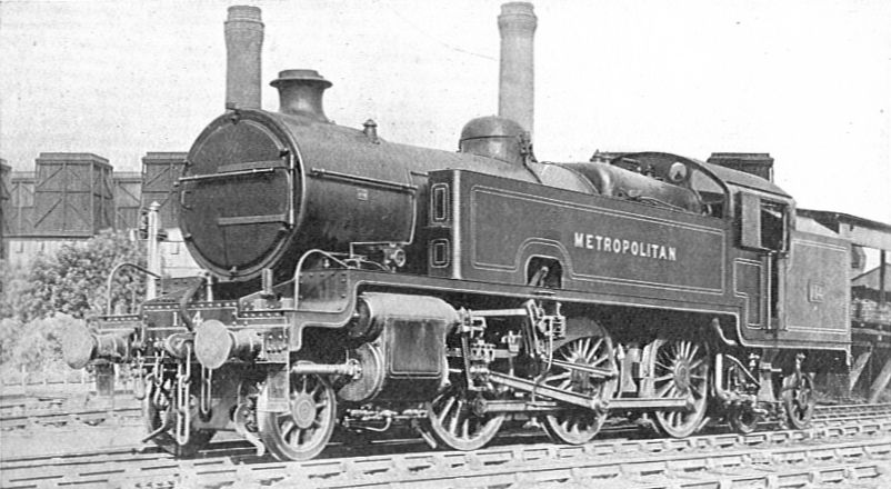 2-6-4 Tank Locomotive For Freight Service, Metropoloutan Rly.